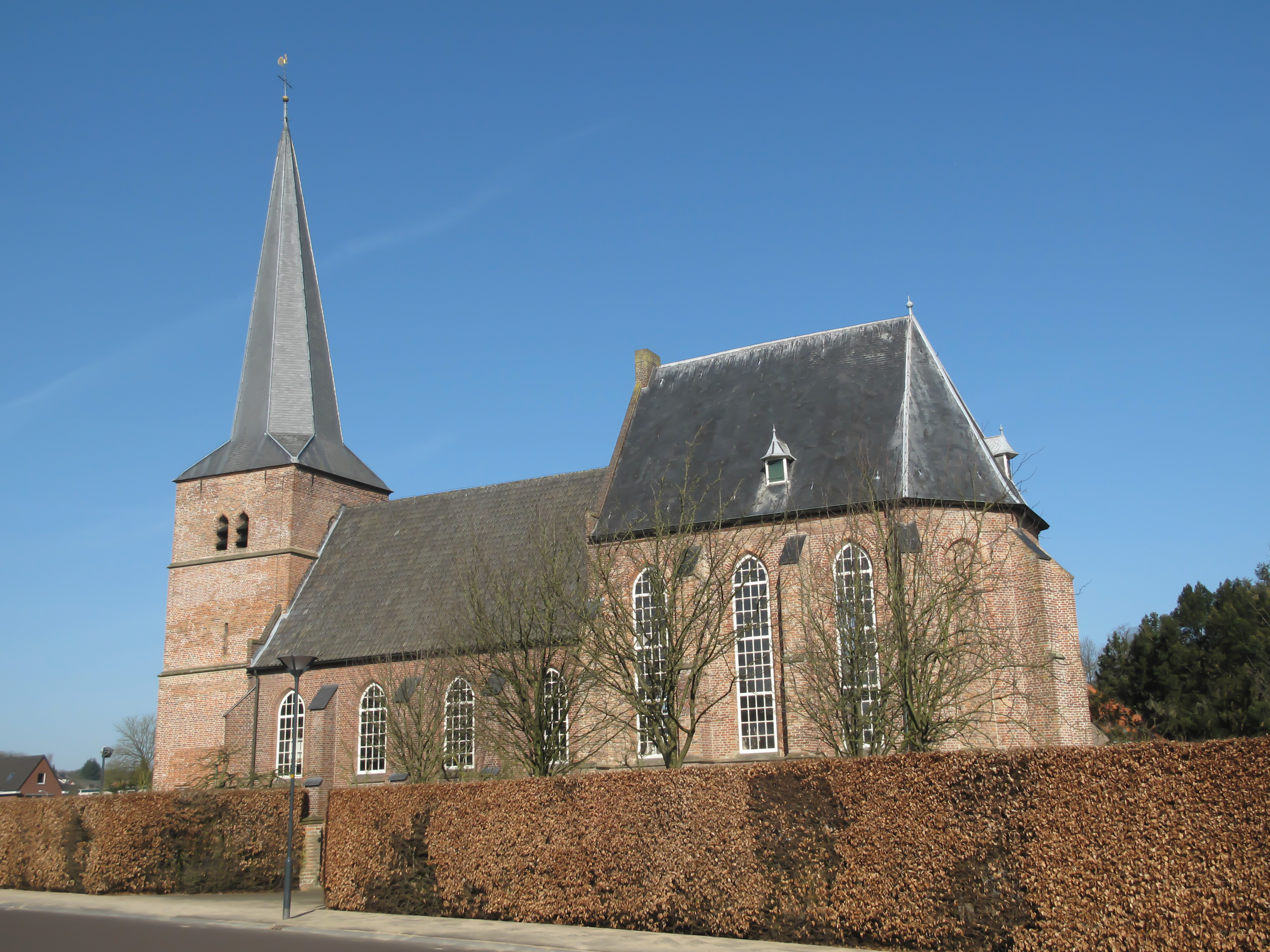 Groesbeek, reformed church